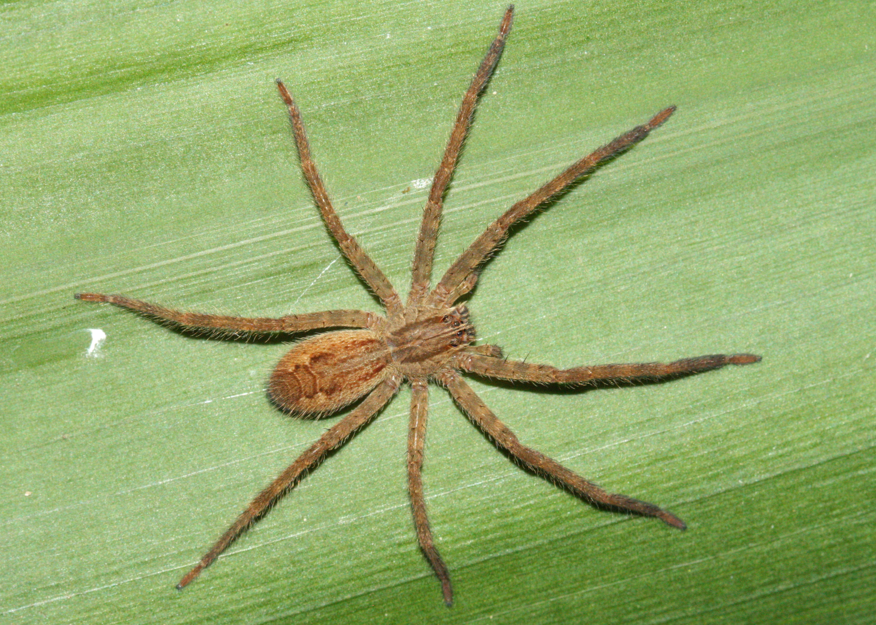 Cupiennius salei, Juvenile. In lower elevation of Parque Nacional Cusuco, Dept. Cortés, Honduras